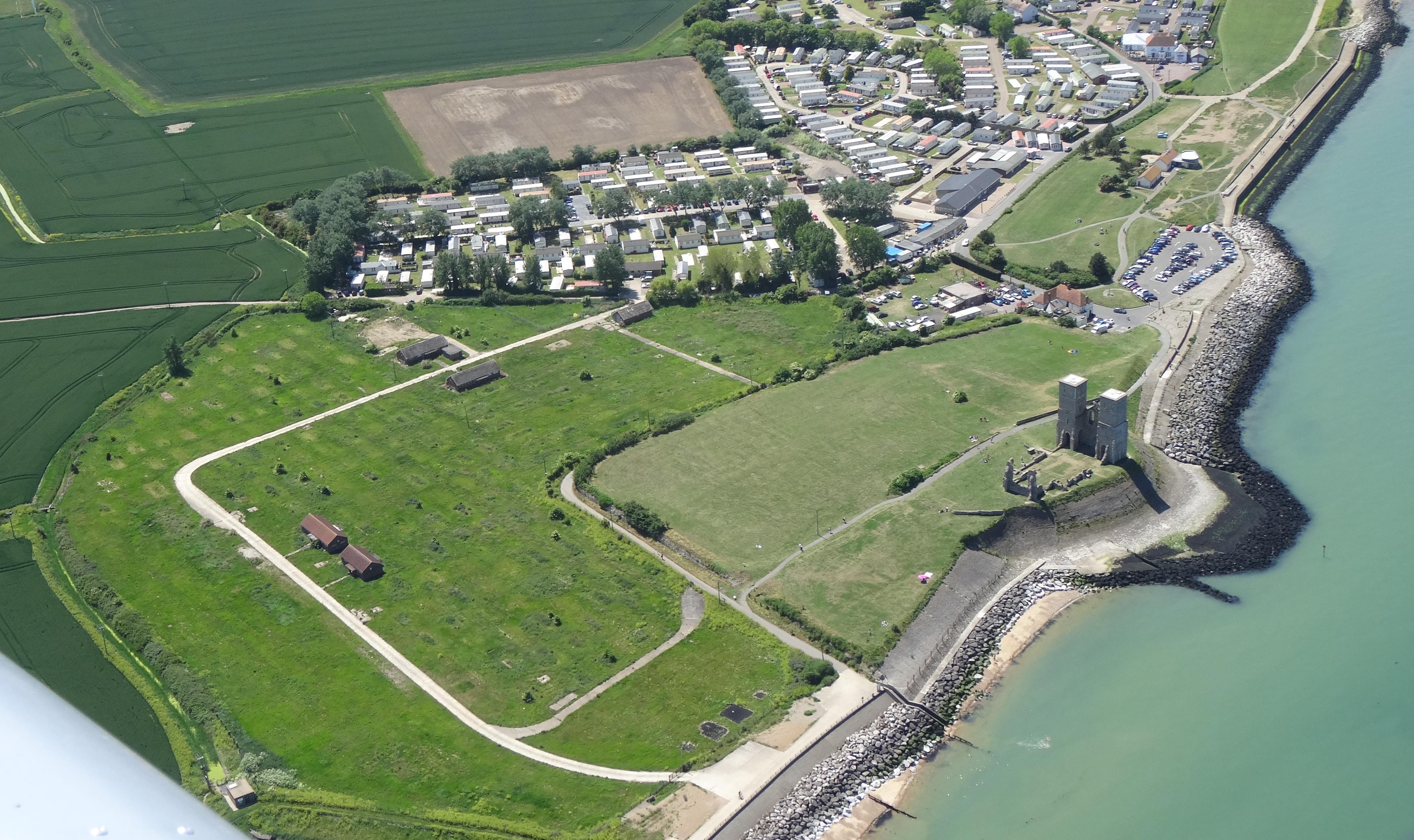 Reculver, taken June 2015 from a light aircraft, at 700 feet